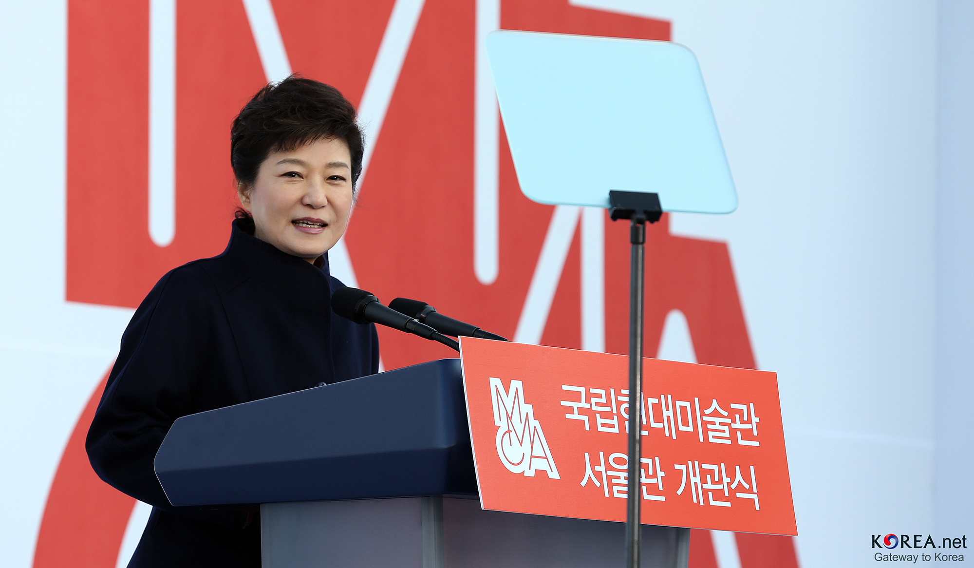 Opening Ceremony of The Seoul branch of the National Museum of Modern and Contemporary Art (MMCA) November 12, 2013 Samcheong-dong, Seoul Related Articles -English Seoul gets new modern art museum -Espanol En Seúl se inaugura museo de arte -中文 城市中的美术馆开馆 -日本語 都心の中の美術館オープン -Deutsch Seoul erhält neues Museum für moderne Kunst -Russian У Сеула появился новый музей современного искусства Ministry of Culture, Sports and Tourism Korean Culture and Information Service ( JEON HAN 국립현대미술관 서울관 개관식 2013-11-12 삼청동(三淸洞), 서울 문화체육관광부 해외문화홍보원 코리아넷 전한